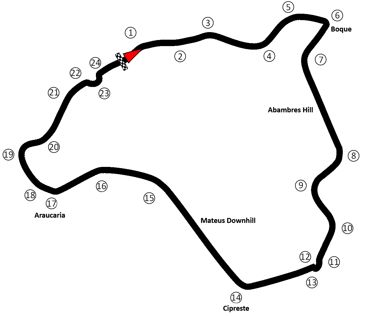 Layout of the Vila Real International Circuit